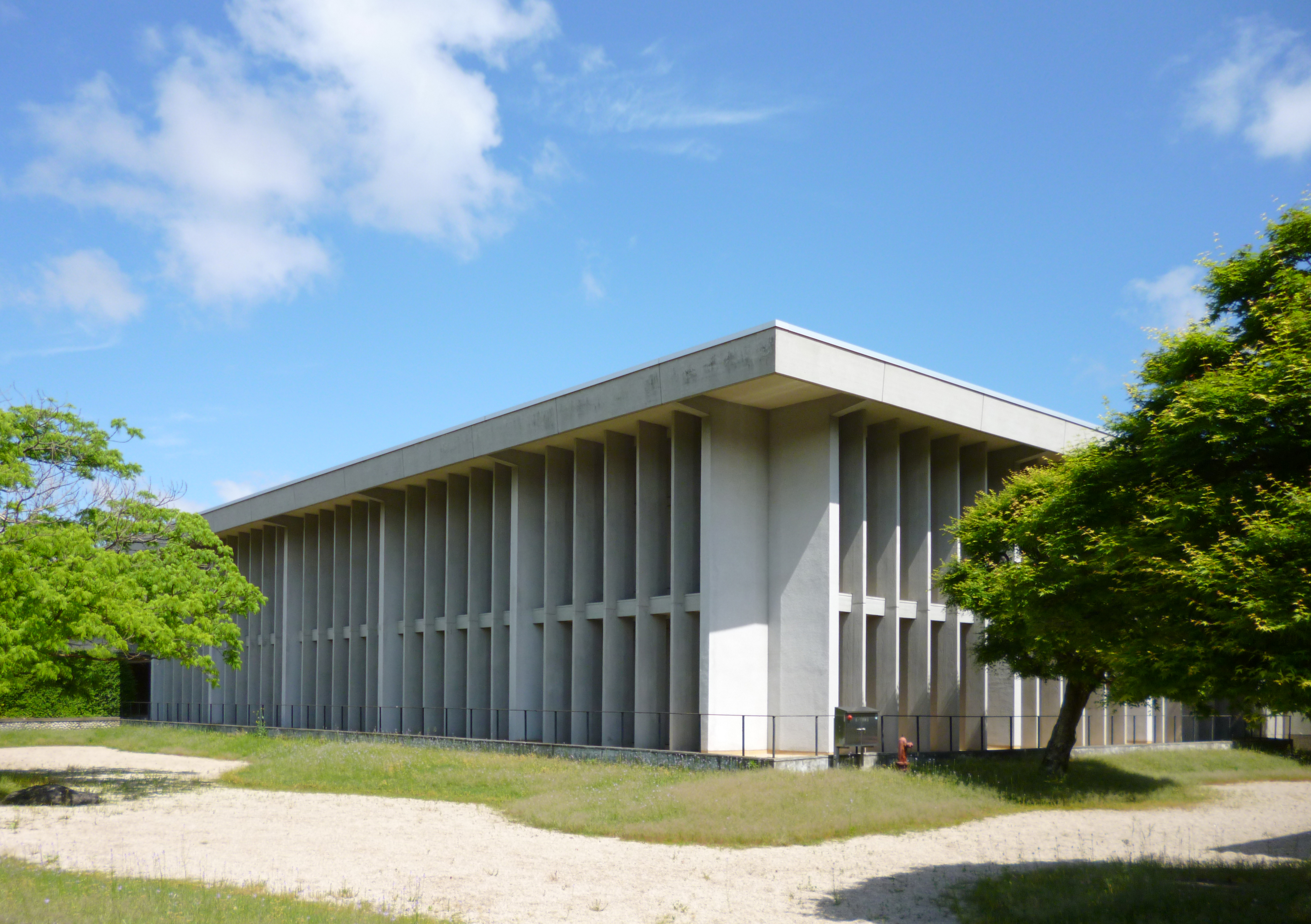 Toyama Prefectural Library in Toyama, Toyama, Japan.